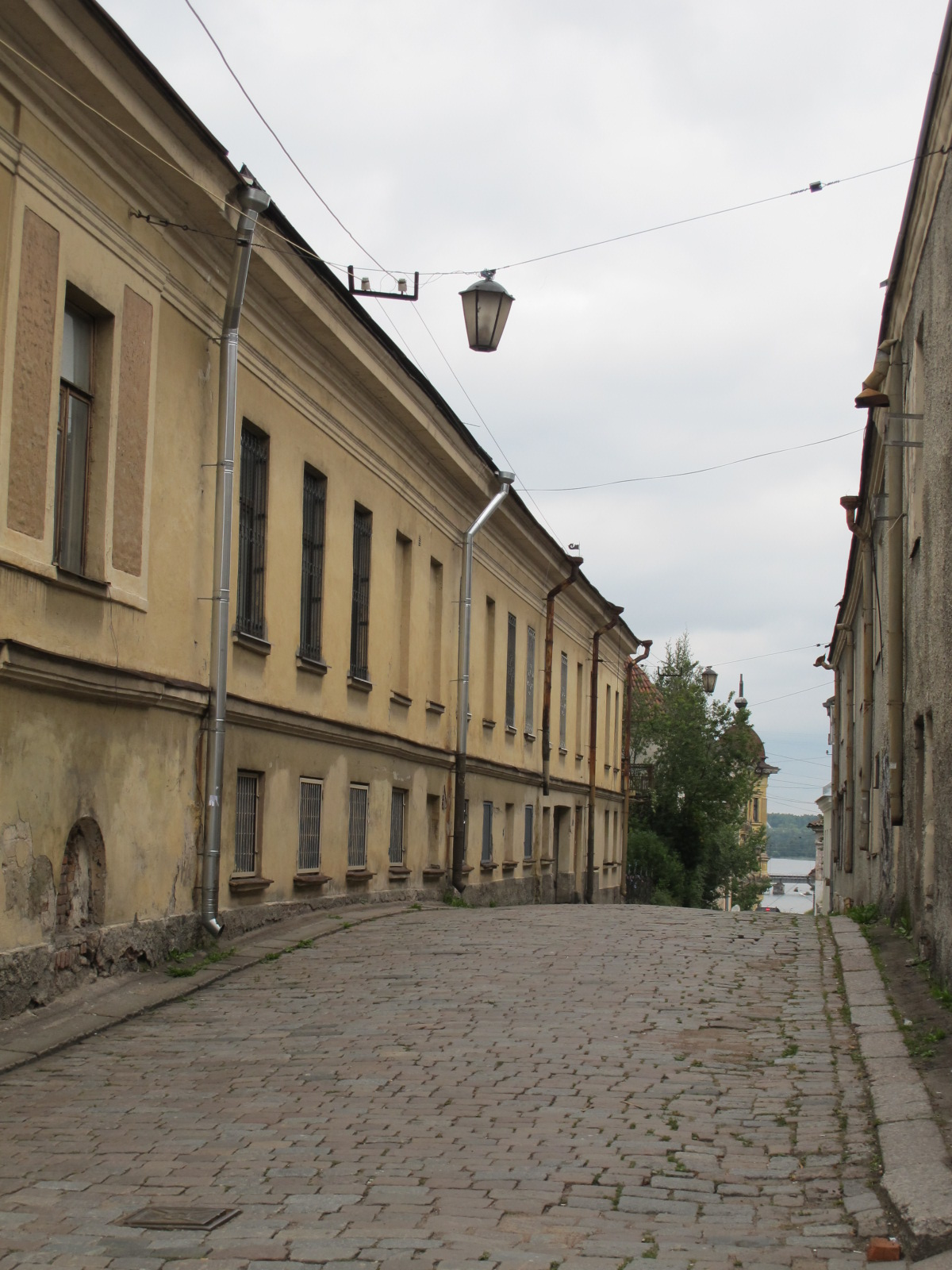 Old street in Vyborg